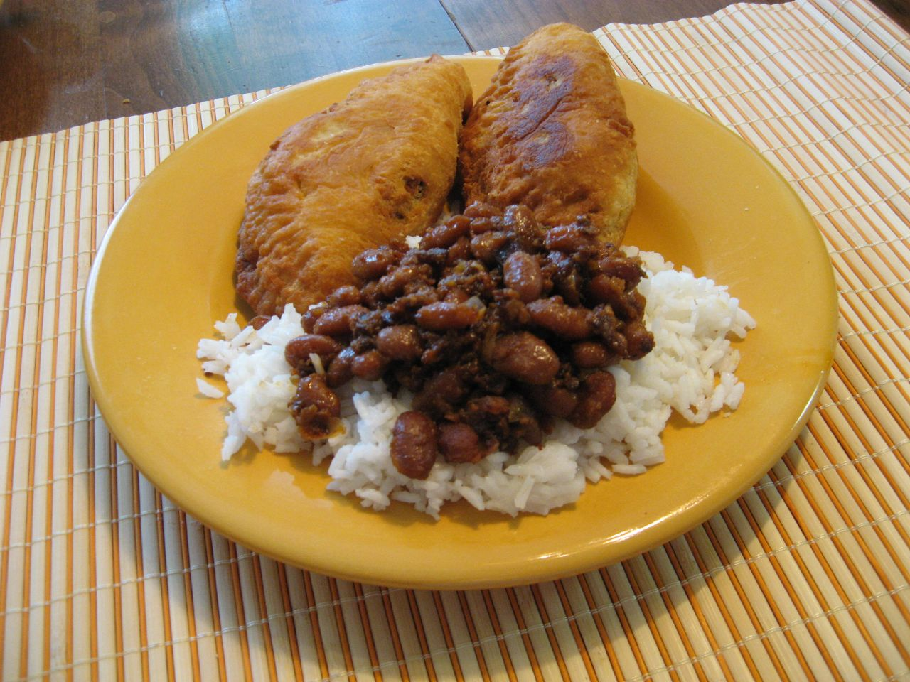 From Flickr: Natchitoches Meat Pies, Once and Future Beans, and White Rice